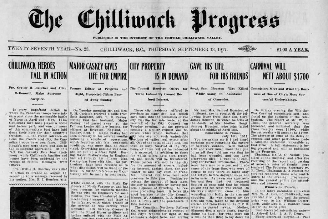 Chilliwack Progress building in the 1890s